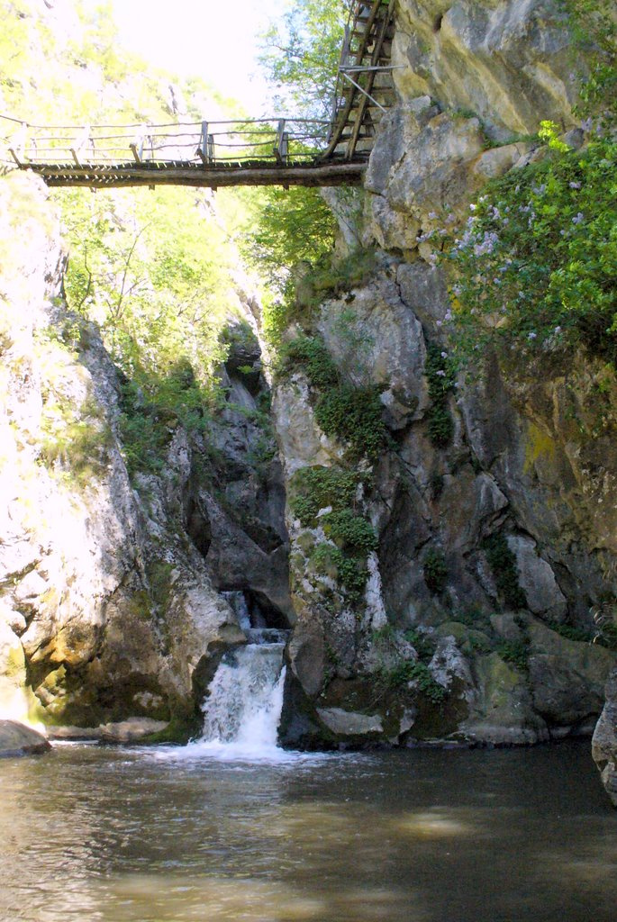 Yablanishko gorge near village Bankya, Pernik District, Bulgaria